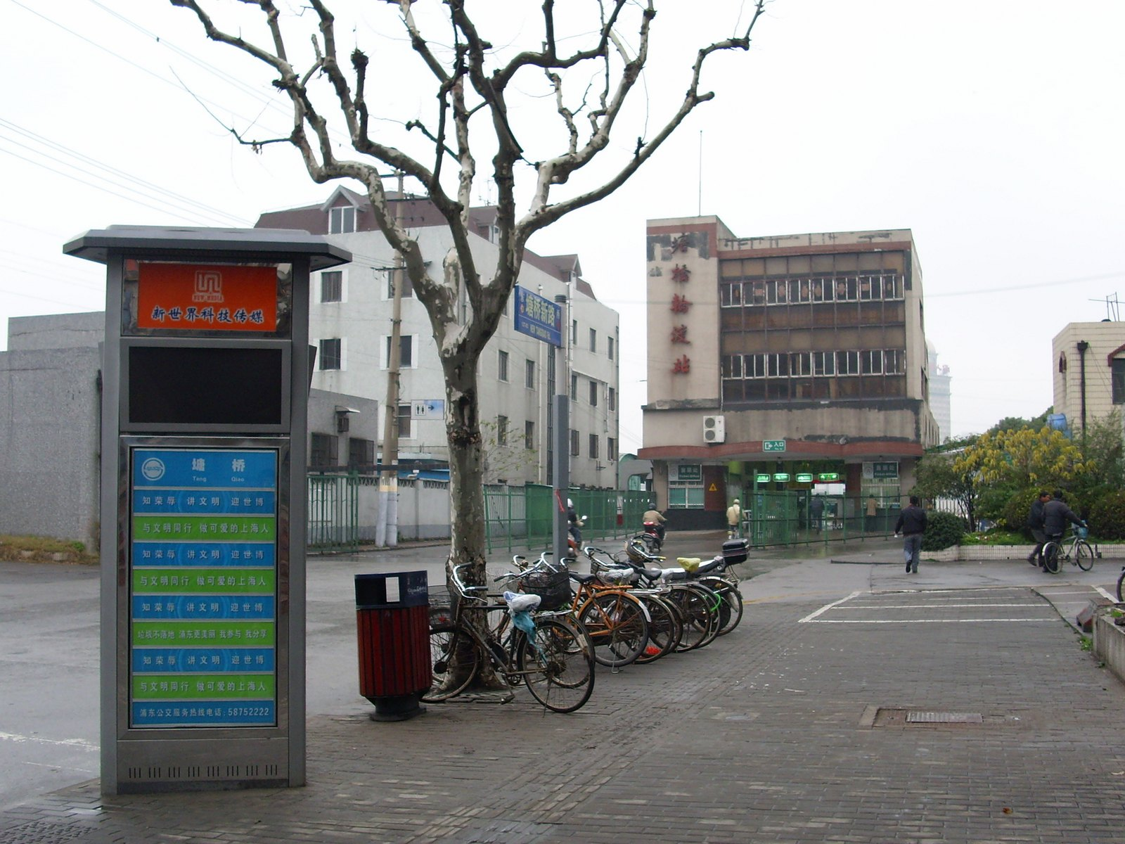 Tangqiao Ferry